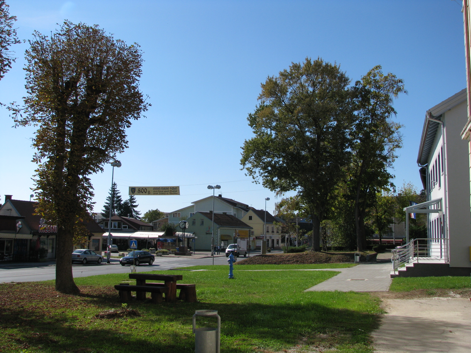 Center of Dugo Selo, Croatia